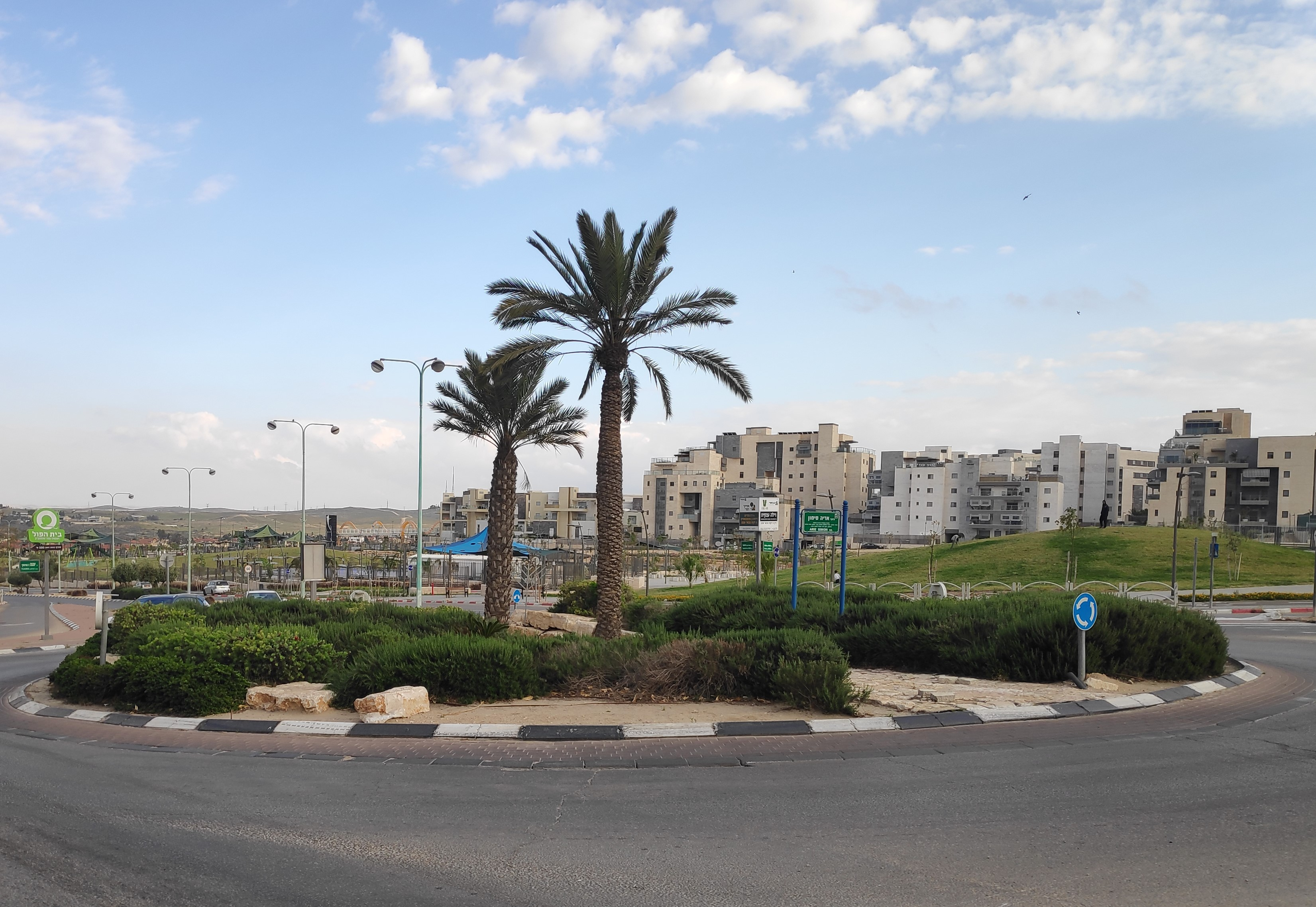 Arie Simon Square, in the background of The Tairy tale Park